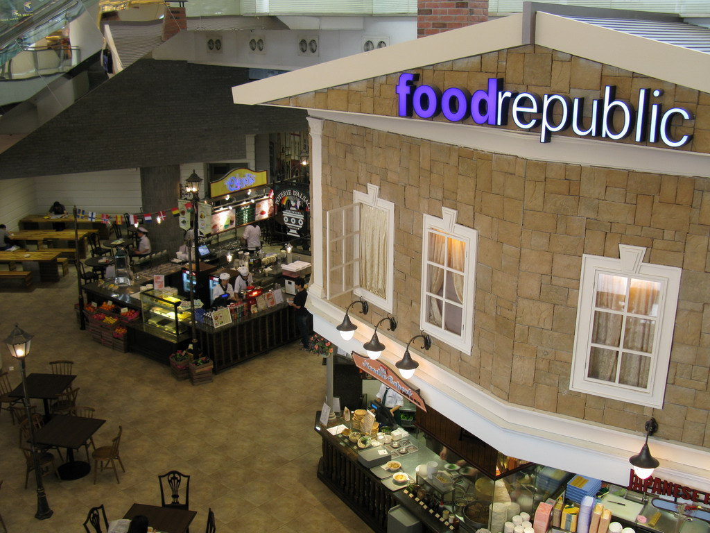 Food Republic at Olympian City 2